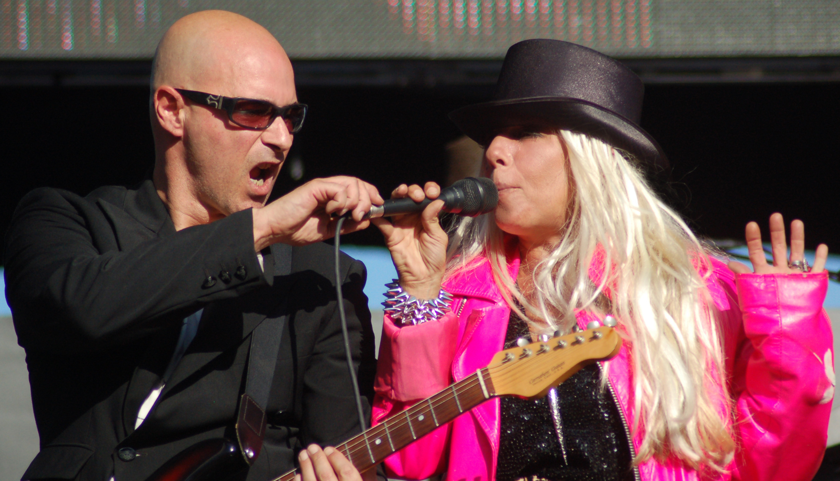 Warren Cuccurullo and Dale Bozzio of Missing Persons performing at a concert in October 2009.